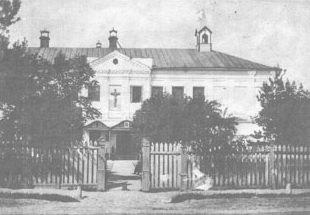 XIX century photo of Catholic Church in Yaroslavl (Russia)